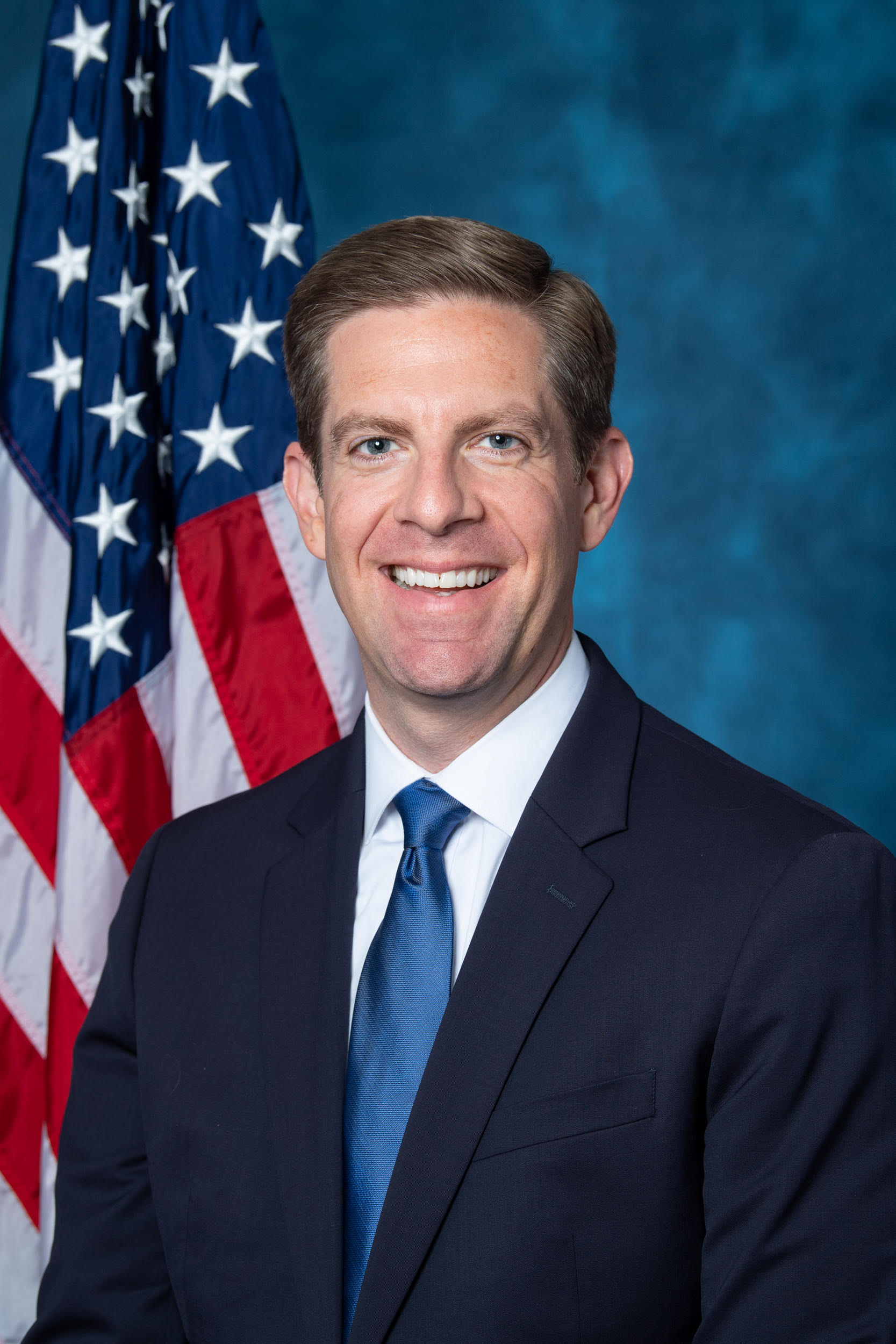 Official headshot of Rep. Mike Levin (CA-49)